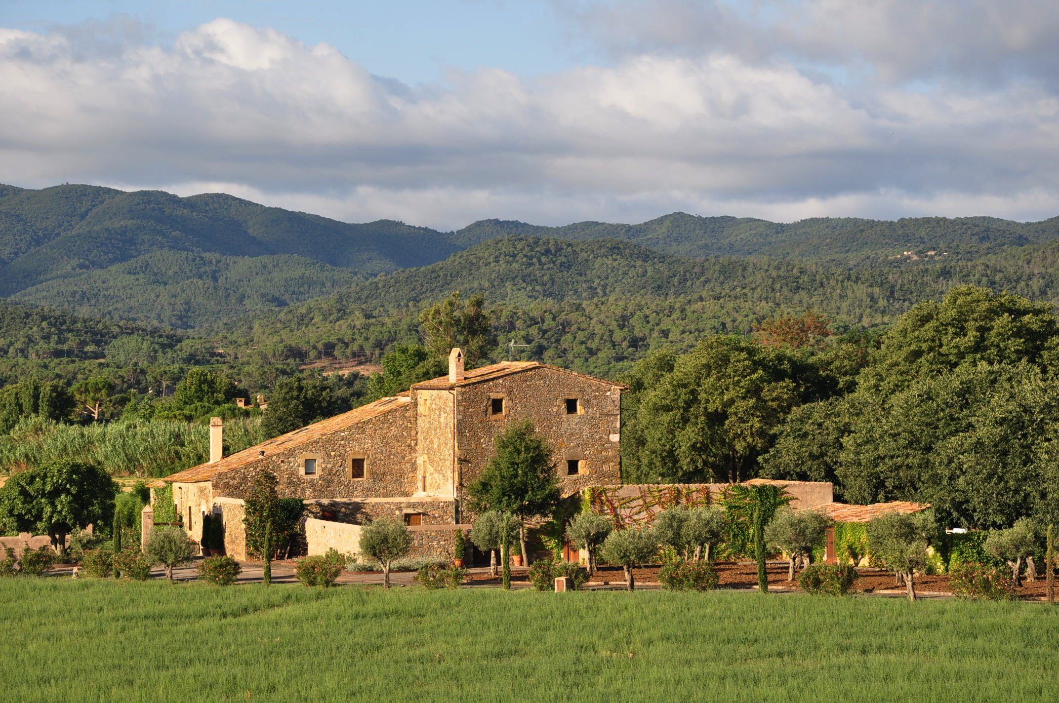 Can Botero, a farm 500 m south of the fortified village of Cruïlles (County of Baix Empordà, Catalonia, Spain). Cruïlles lies 2.8 km west of La Bisbal d'Empordà. The hills in the background are Les Gavarres.